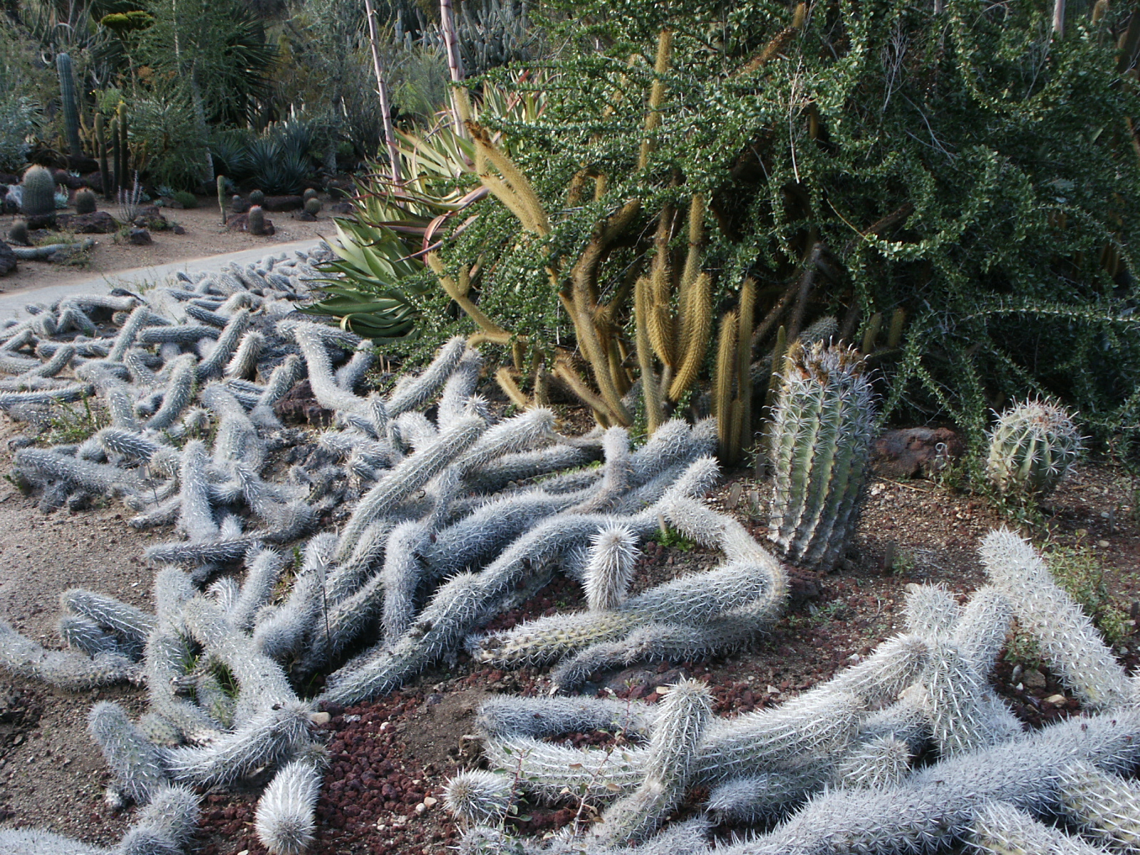 Stenocereus Creeping Devils at Huntington Library Desert Botanical Garden in afternoon, after and during rain - Various cactus and succulent plants - ground cover creeping devils seem to be tumbling down a hillside like white furry logs